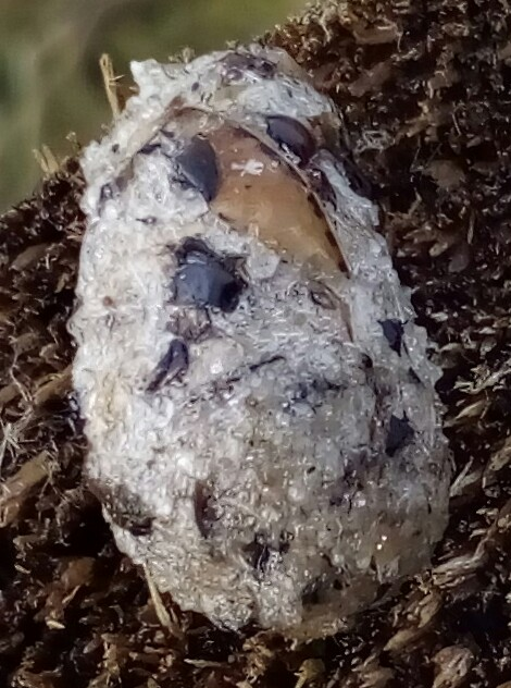 Kingfisher pellet found at RSPB Old Moor. It smelled strongly of fish, and seemed to contain part of a stickleback or similar. Pound coin for scale.